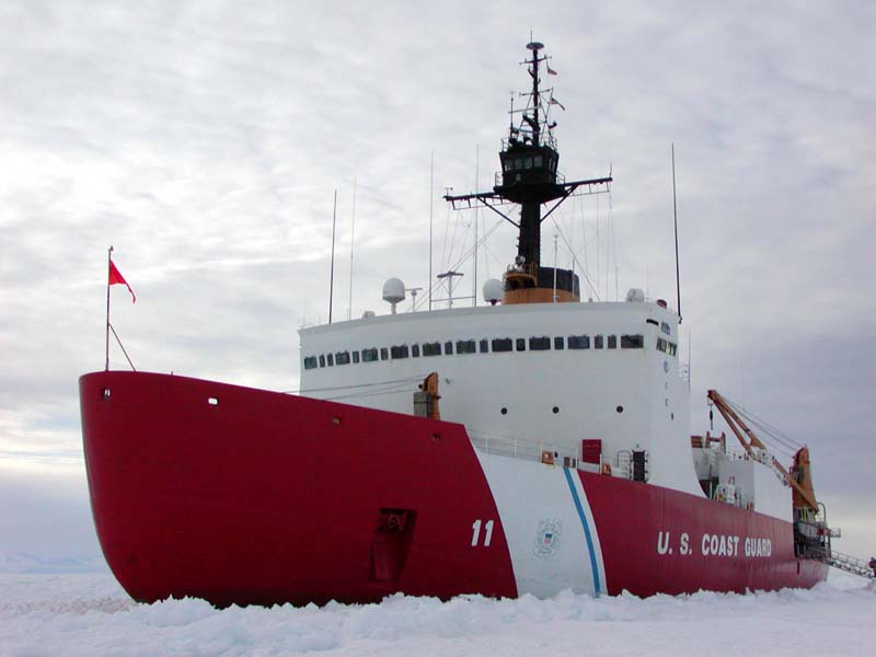 USCGC Polar Sea